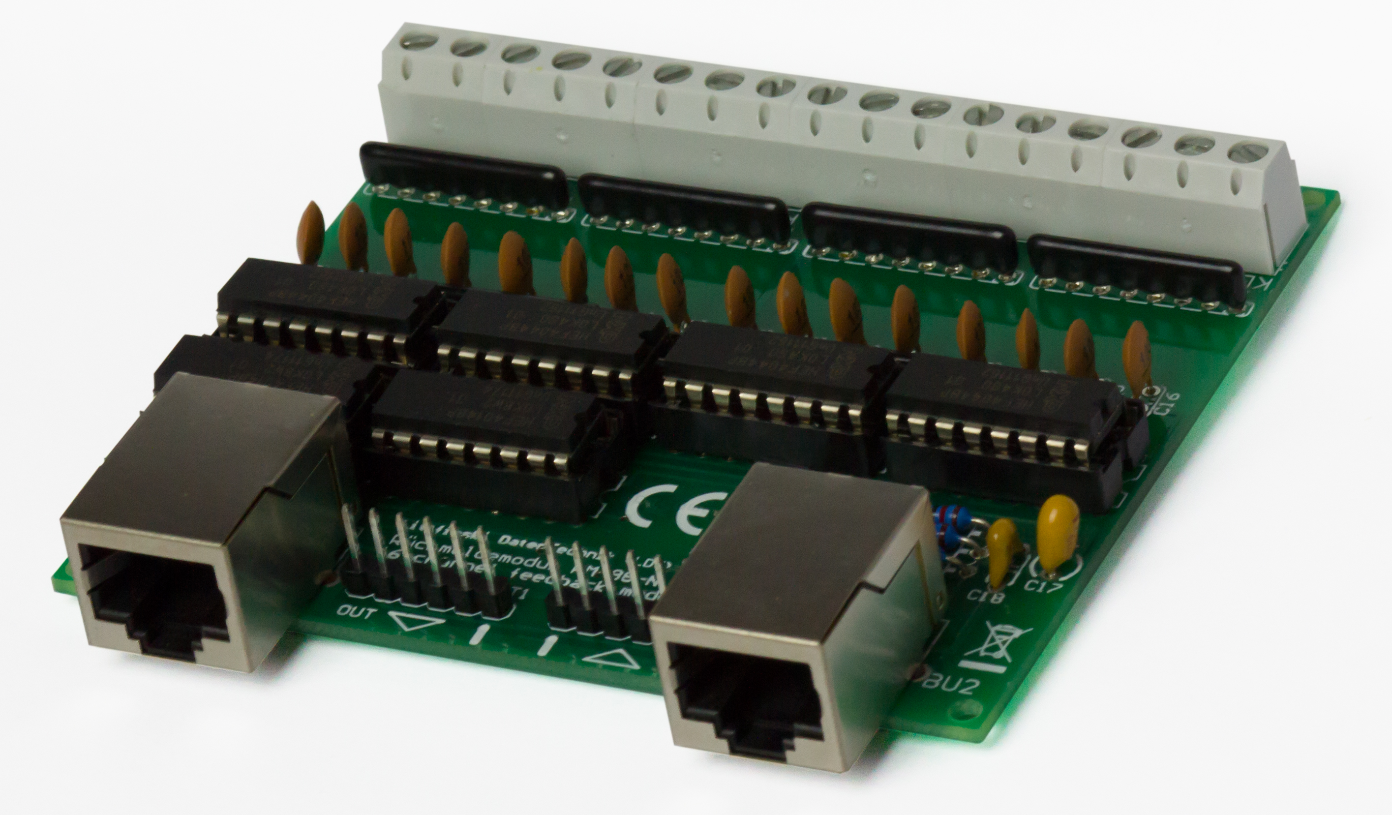 Märklin S88 Decoder Clone.